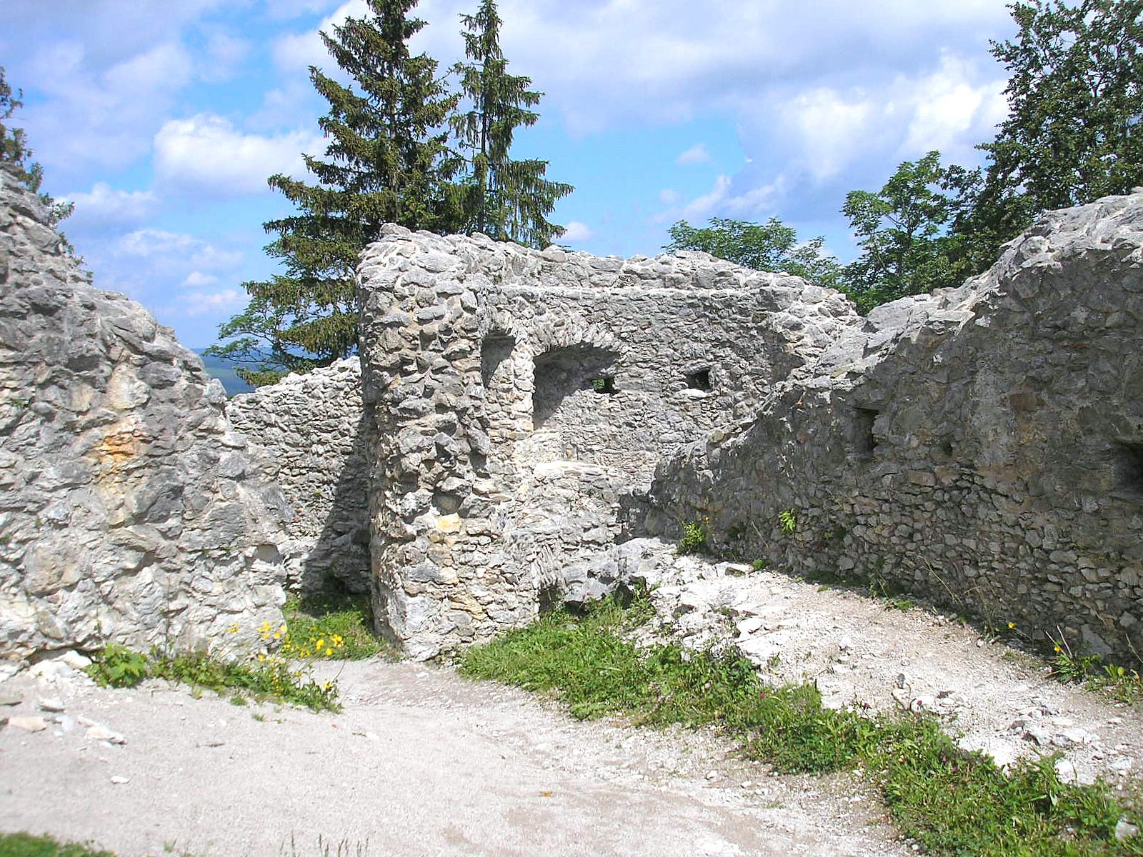 Hohenfreyberg castle (Landkreis Ostallgäu, Bavaria, Germany). The north eastern tower